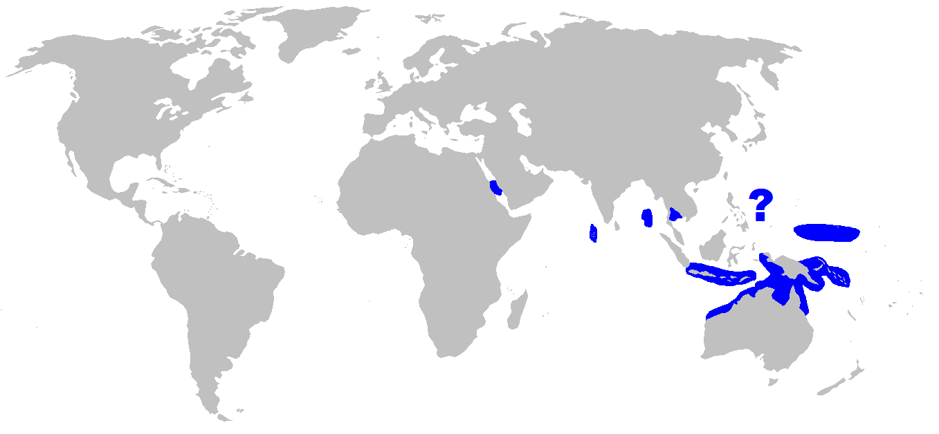 Range of the mangrove whipray (Himantura granulata), based on Last and Stevens (2009).